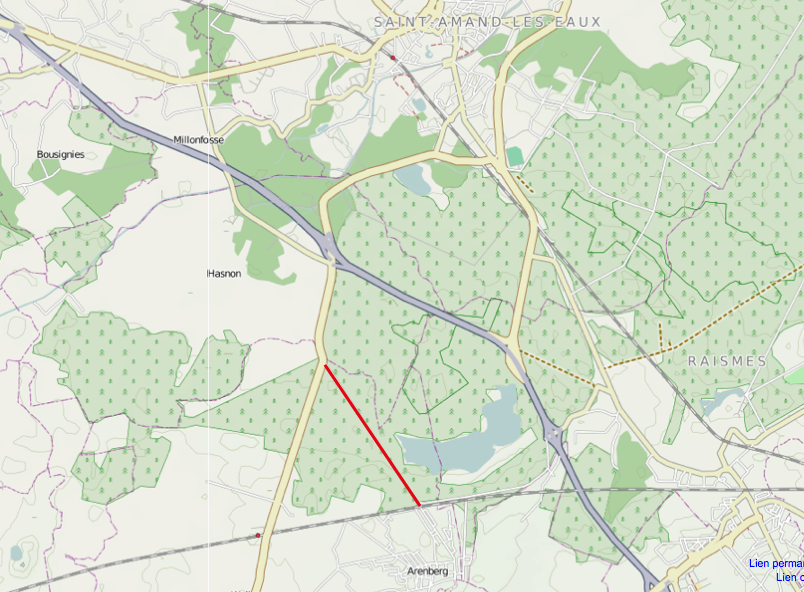 Arenberg trench, 2.4 km, 5 star cobbled sector of Paris-Roubaix.